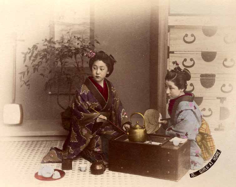 Tirage albuminé réhaussé 28 x 16 cm